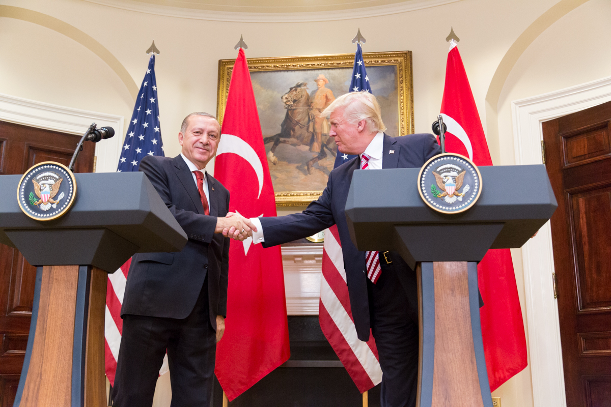 President Trump and President Erdoğan give a joint statement in the Roosevelt Room at the White House, Tuesday, May 16, 2017 in Washington, D.C.